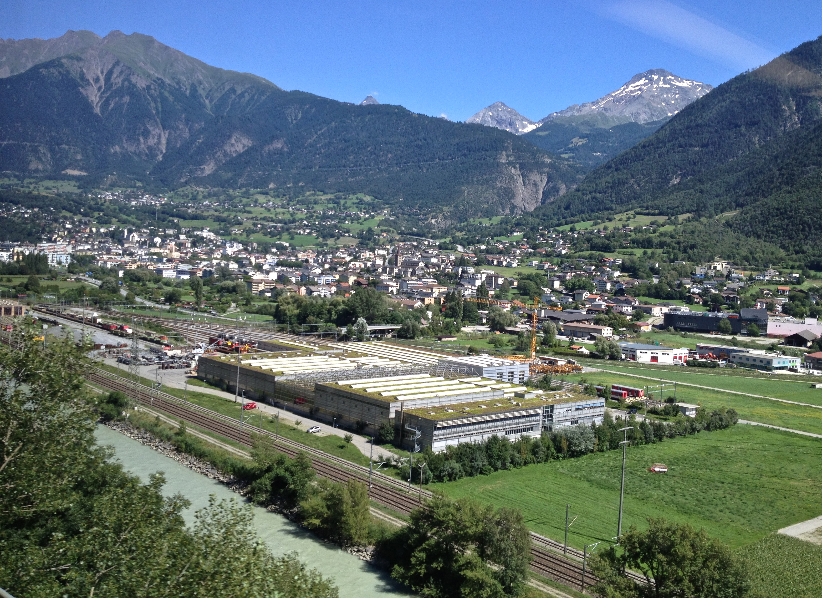 Brigl